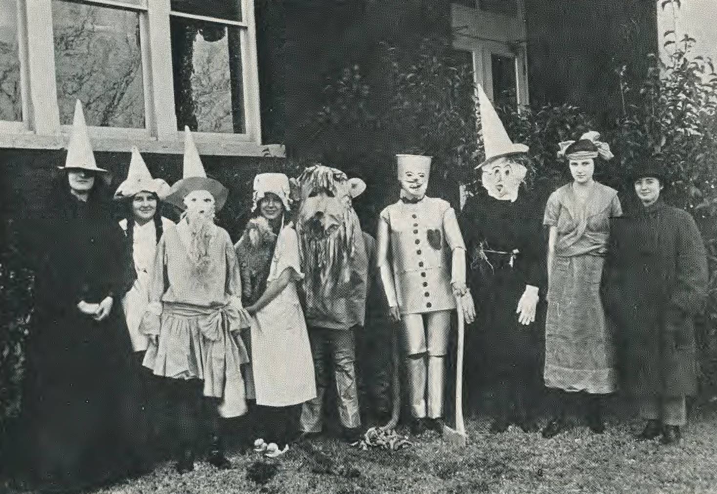 The Wizard of Oz cast at East Texas State Normal College.